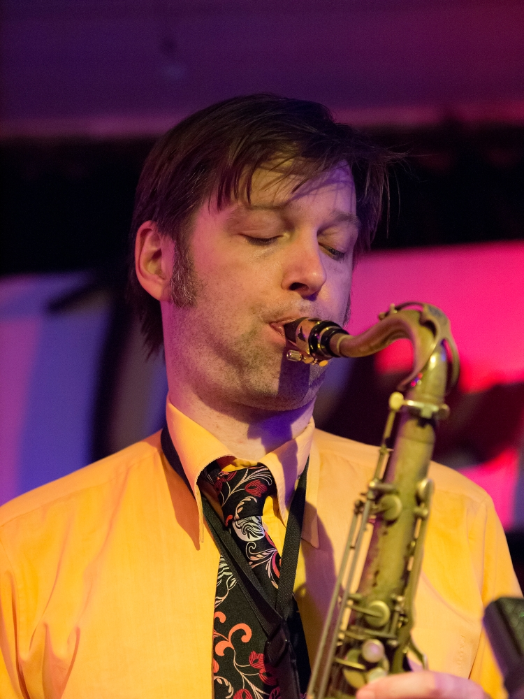 Daniel Erdmann, Jazz saxophonist; Picture taken in Jazz Club Unterfahrt, Munich/Bavaria